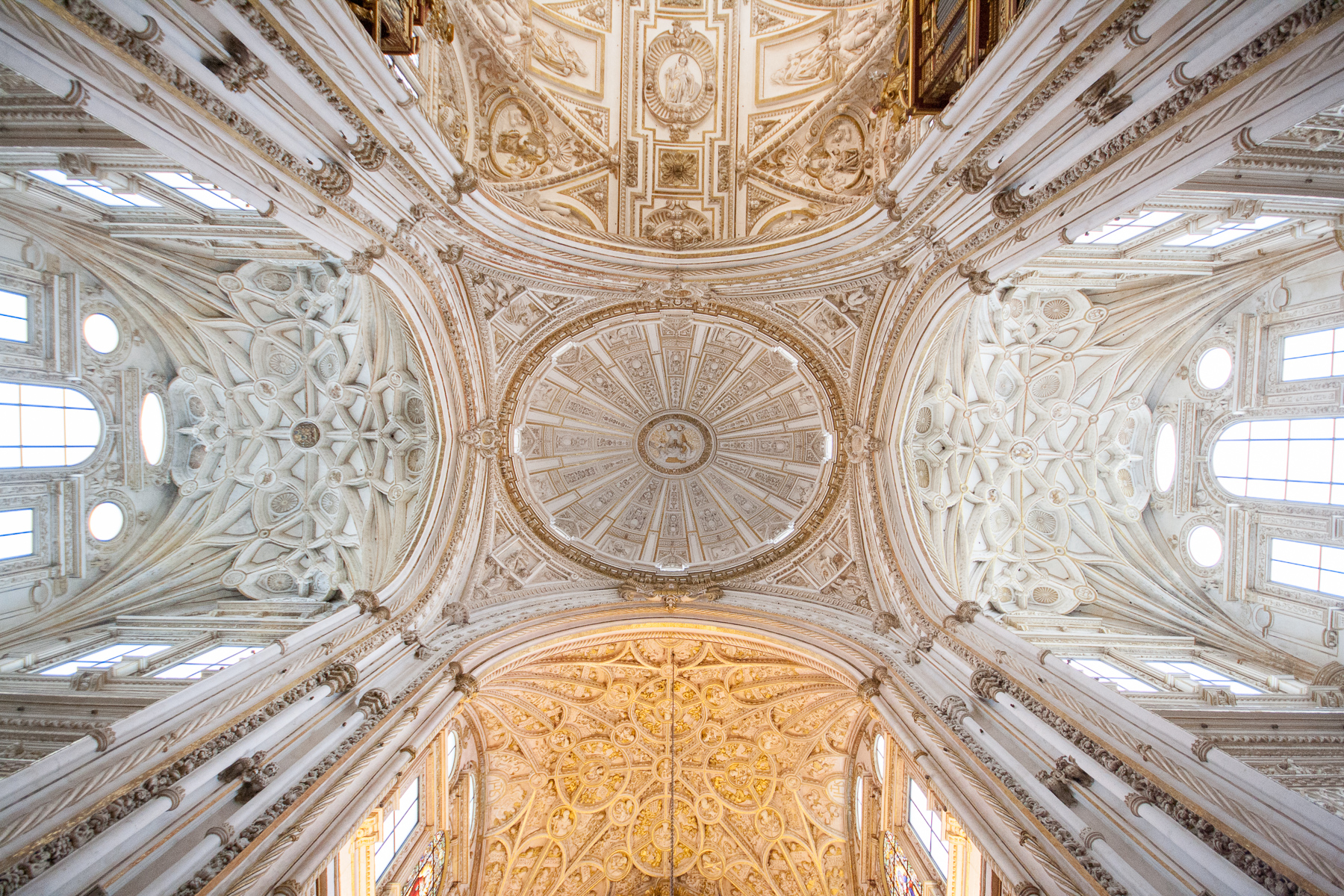 Foreveryoung Andalusia 2018